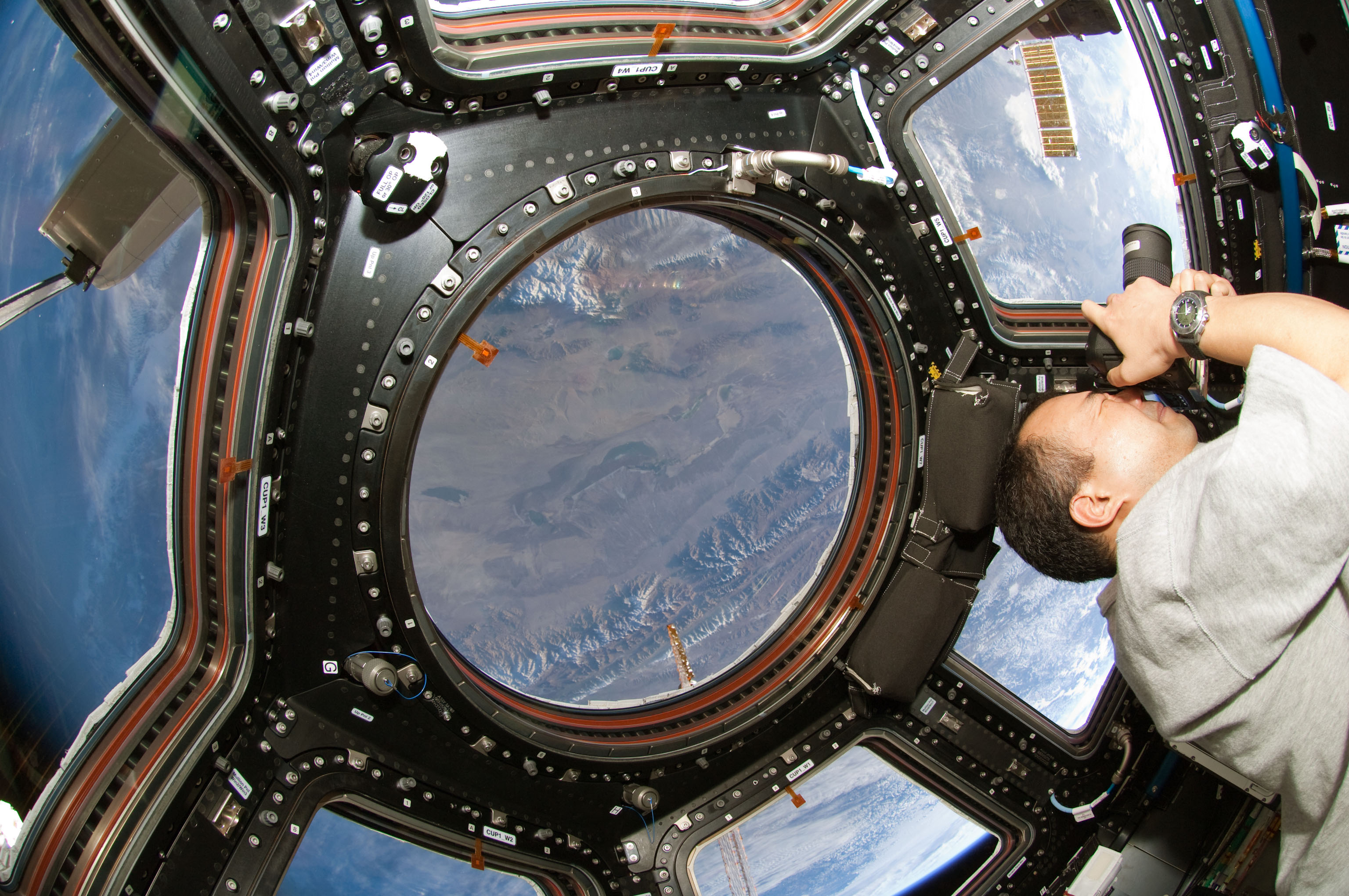 Japan Aerospace Exploration Agency (JAXA) astronaut Soichi Noguchi, Expedition 22 flight engineer, uses a still camera at a window in the Cupola of the International Space Station while space shuttle Endeavour (STS-130) remains docked with the station.